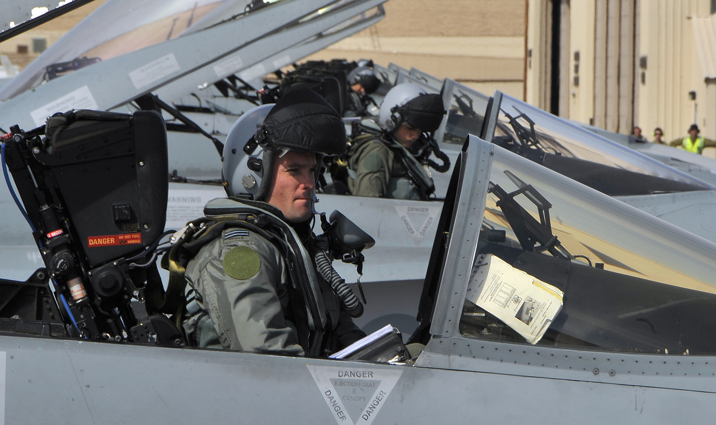 NELLIS AIR FORCE BASE, Nev. -- Flight Lieutenant Mathew Deveson, 77th Squadron, Royal Australian Air Force, prepares to fly his F/A-18 Hornet during Red Flag 10-3 Feb. 23. The members of the 77th Squadron are deployed to Nellis from RAAF Base Williamtown near Newcastle, Australia.